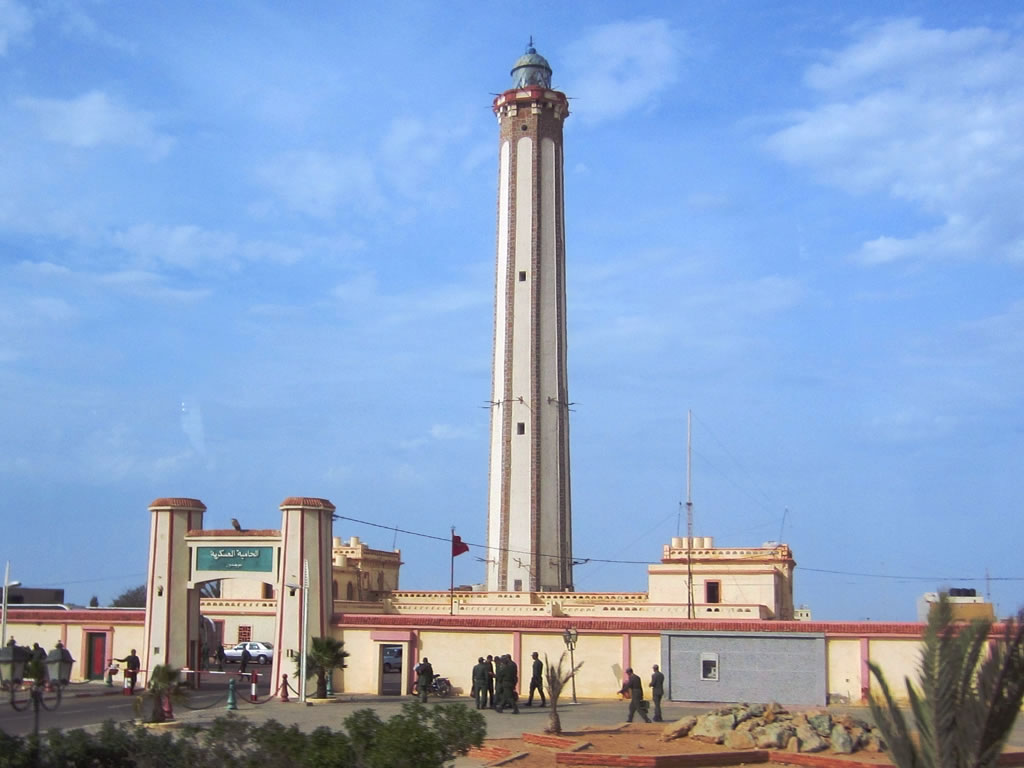 A military base at Boujdour between Laayoune and Dakhla.